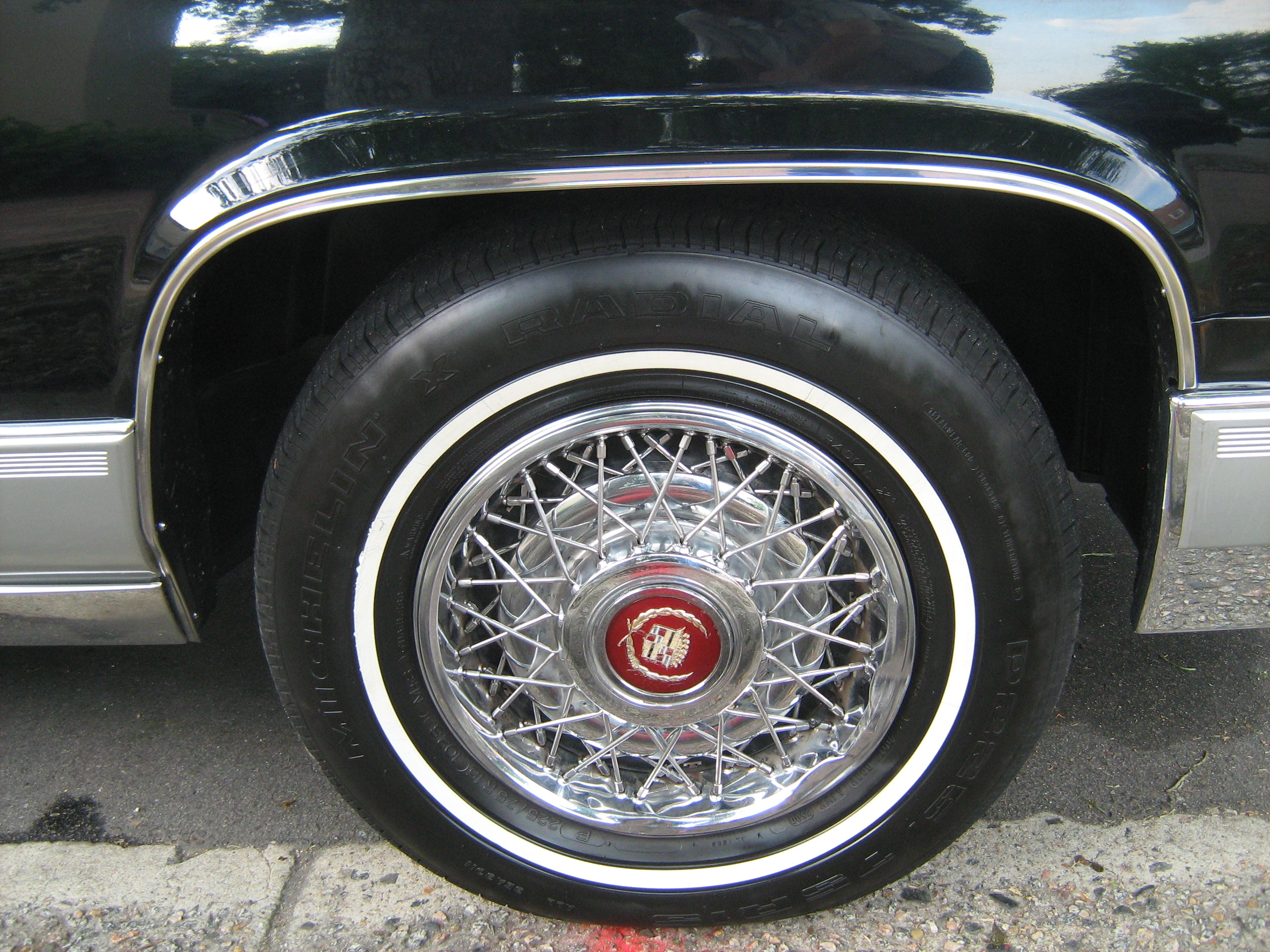 1991 Cadillac Fleetwood d'Elegance, "gold-edition" in triple-black.